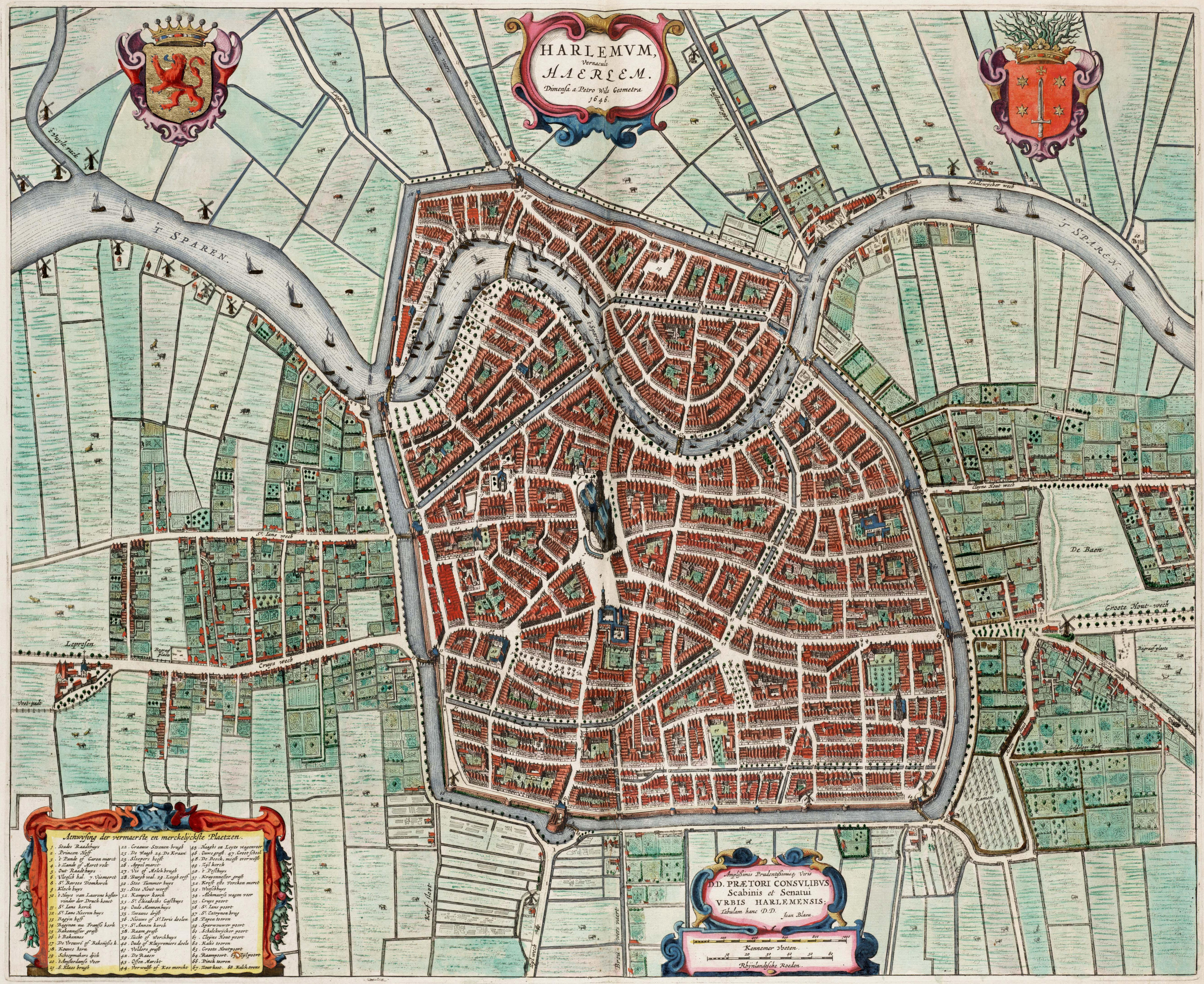 Map of Haarlem, 1646. "HARLEMVM, Vernacule HAERLEM. Dimensa a Petro Wils Geometra 1646"